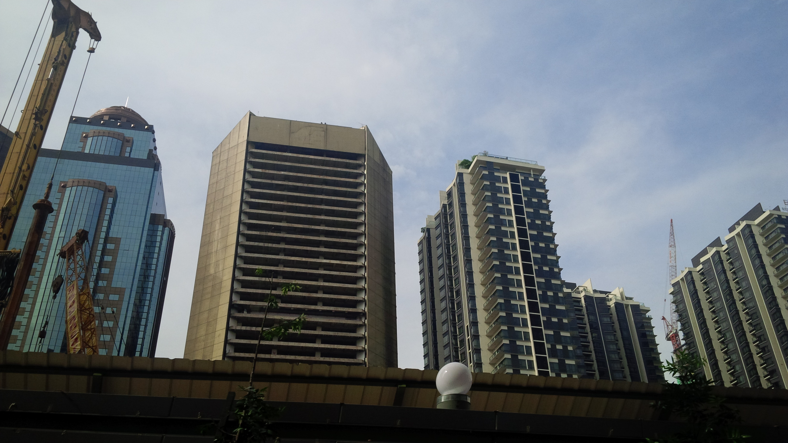 Bangunan MAS - Former Malaysia Airlines head office building in Kuala Lumpur, Malaysia in October 2013